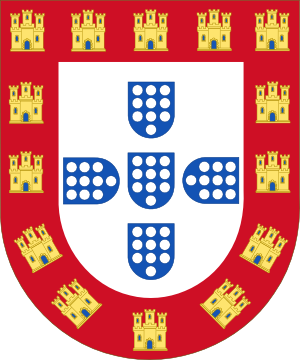 Shield of the Kingdom of Portugal after D. Afonso III of Portugal, 5th King of Portugal